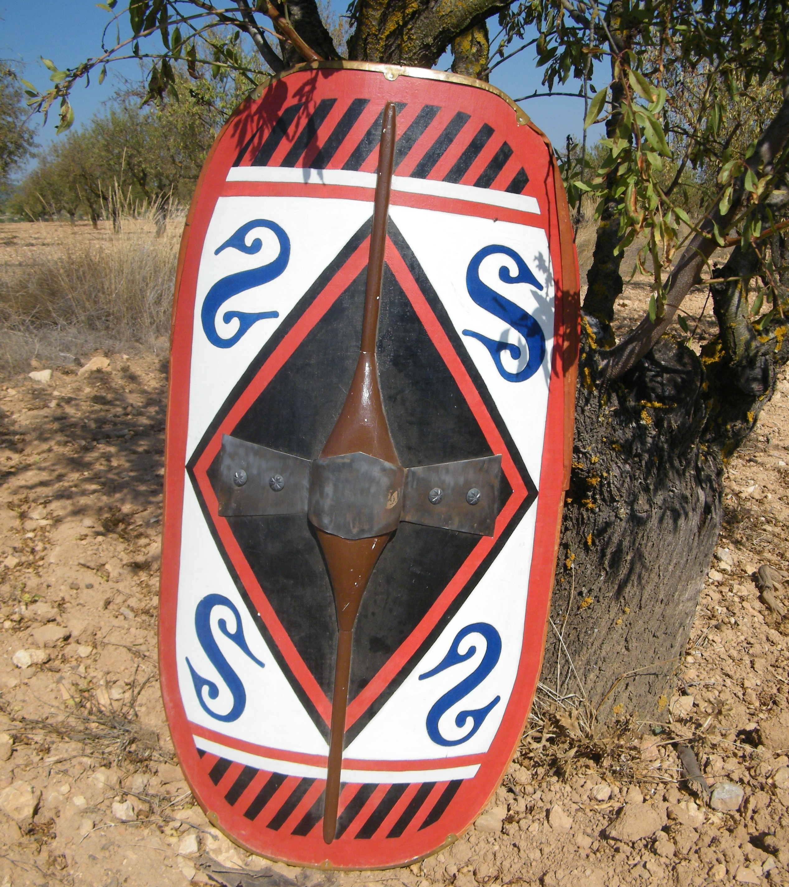 Roman shield (scutum). Archaelogical Site of Kelin. Paraje los Villares, Caudete de las Fuentes, Valencia.